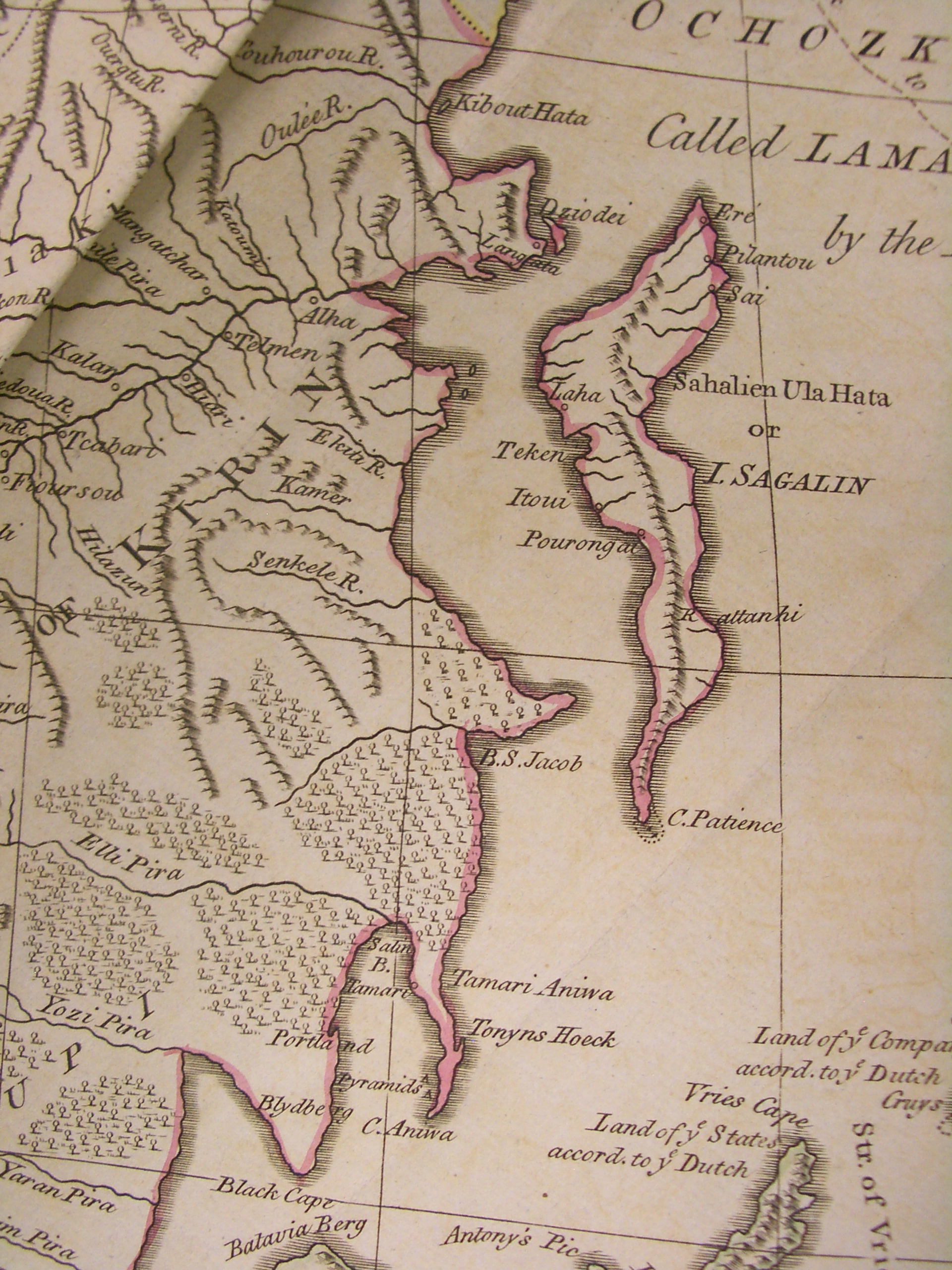 A fragment of the map of Russian Empire (pages 21-22), said to be based on d'Anville's work, in Thomas Kithen's "Atlas describing the Whole Universe". Sakhalin is called "Sahalien Ula Hata or I. Sagalin"